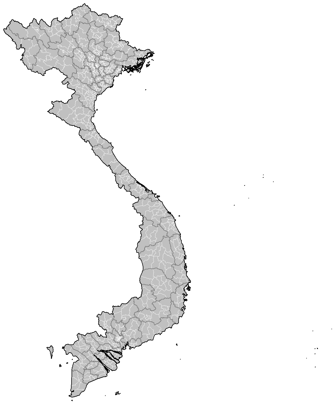 Map of the districts of Vietnam. Created by Rarelibra 20:44, 15 November 2007 (UTC) for public domain use, using MapInfo Professional v8.5 and various mapping resources.